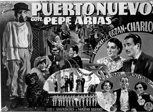 Poster for the Argentine film Puerto Nuevo, starring Pepe Arias.